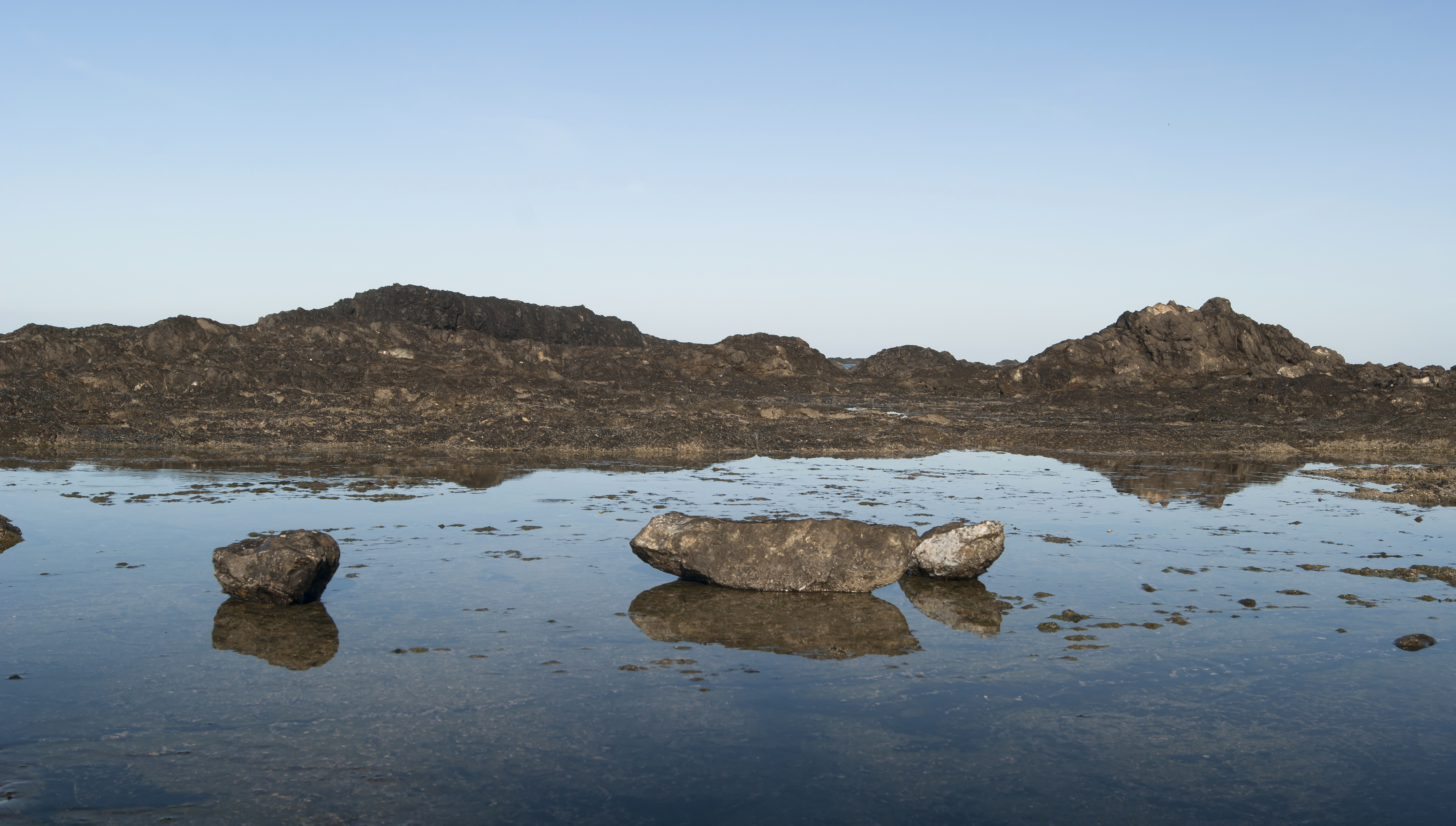 Rocks reflected on the water surface in Junquillal Beach, Guanacaste, Costa Rica right after dawn.